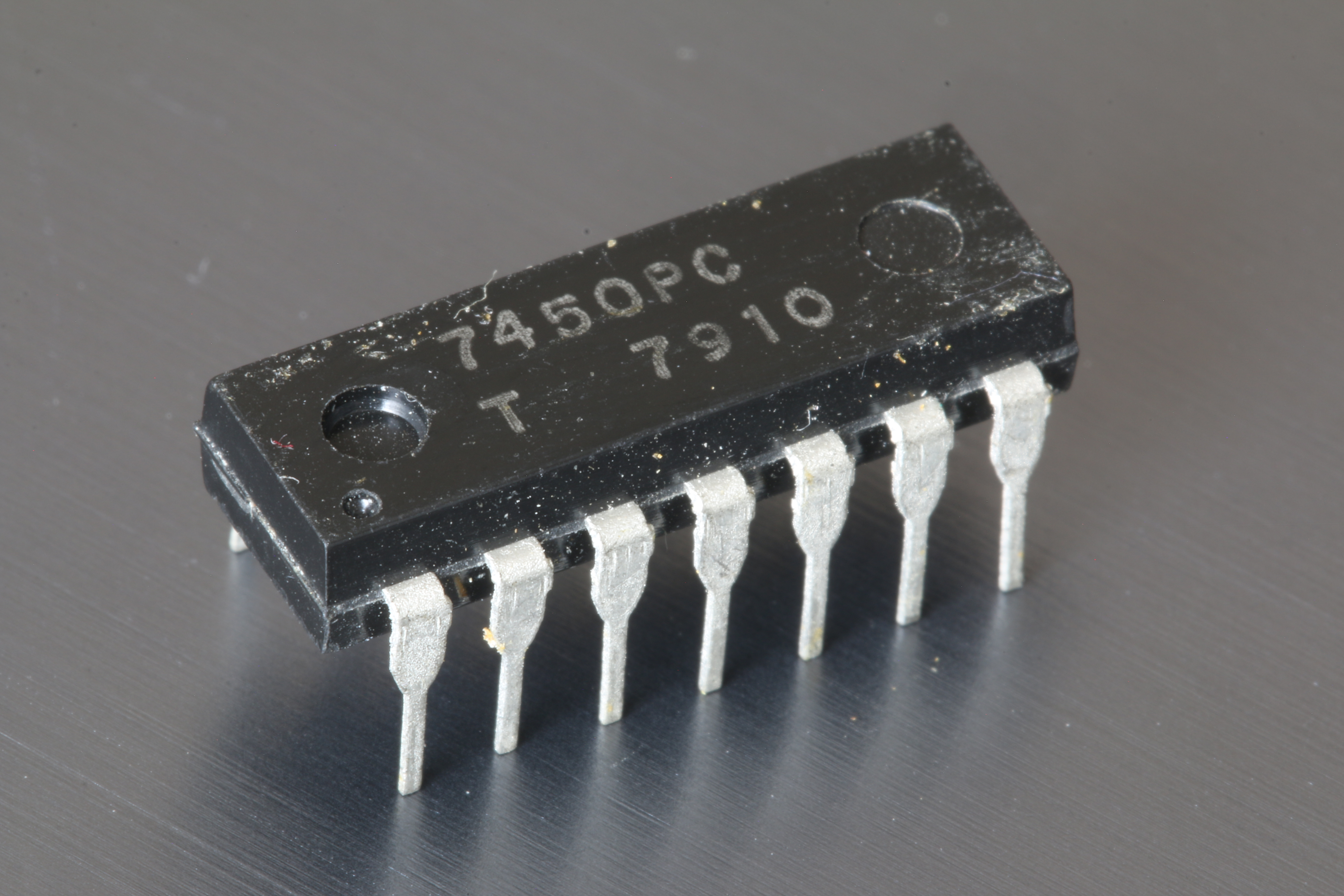 Integrated circuit 7450PC - dual 2-wide 2-input AND-OR-invert gate (one gate expandable) - manufactured by Tungsram, Hungary